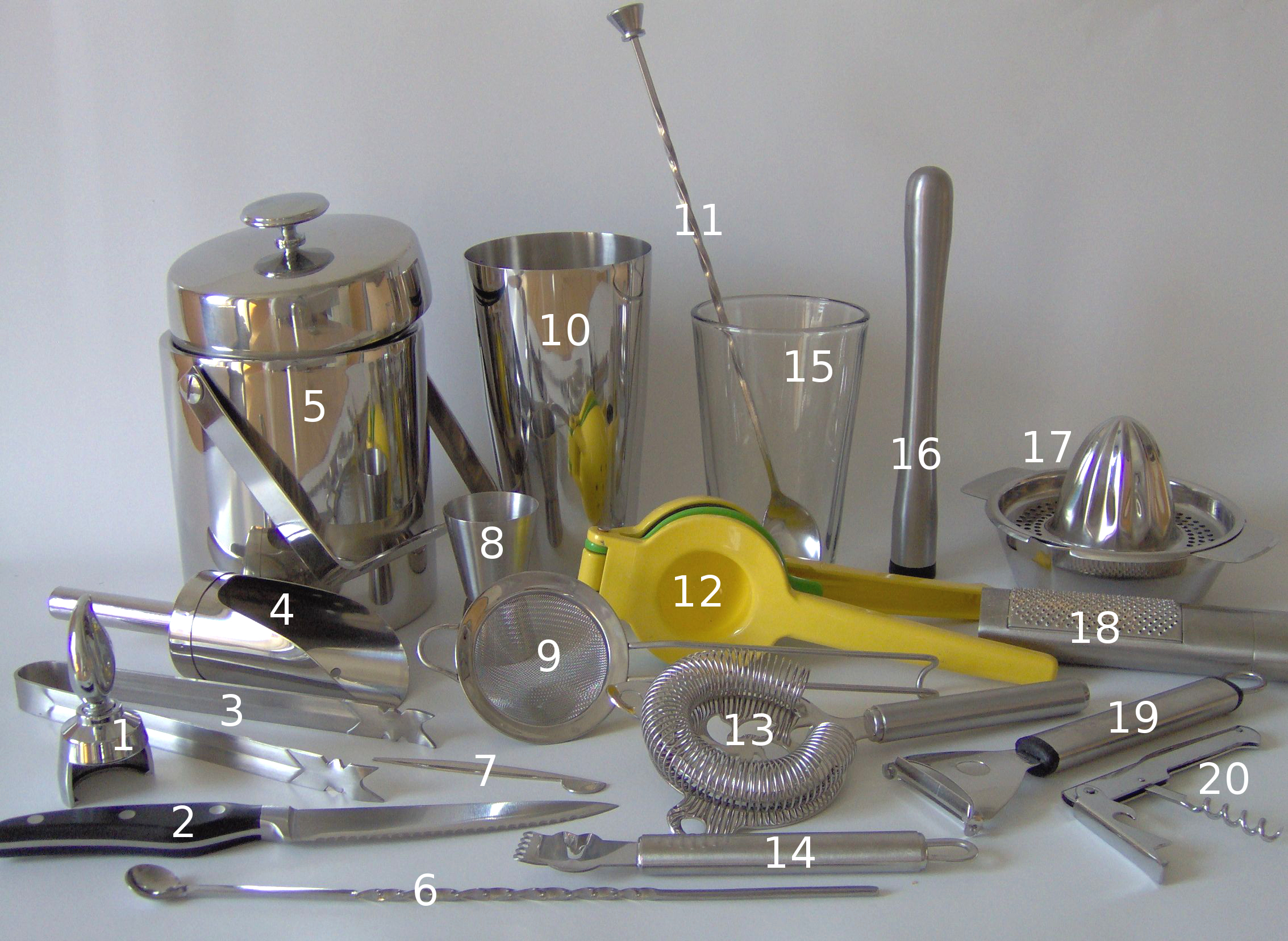 Some bartools (from left to right): (1) champagne bottle stopper, (2) kitchen knife, (3) ice tongs, (4) ice scoop, (5) ice bucket, (6) small bar spoon, (7) cocktail-pick, (8) jigger, (9) tea strainer, (10) boston shaker (metal bottom), (11) bar spoon, (12) handheld lime/lemon squeezer, (13) strainer, (14) zester, (15) boston shaker (mixing glass), (16) muddler, (17) lemon squeezer, (18) nutmeg grater, (19) Y-peeler, (20) corkscrew (sommerlier knife).